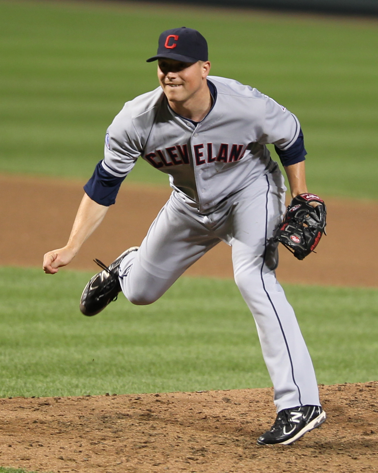 Joe Smith